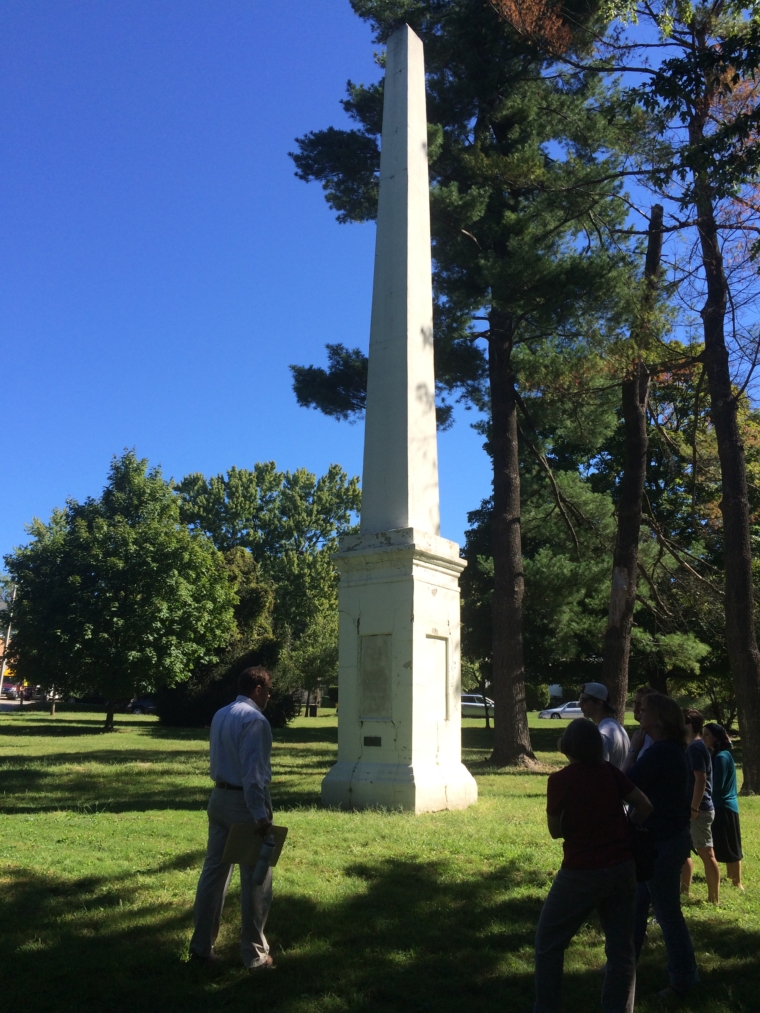 Volunteers with the Northeast Baltimore History Roundtable led a walking tour of Arcadia and Lauraville for graduate students from the Introduction to Public History course at the University of Maryland, Baltimore County. Students are working to publish short stories on northeast Baltimore landmarks for Explore Baltimore Heritage. Photograph by Eli Pousson, 2016 September 12.